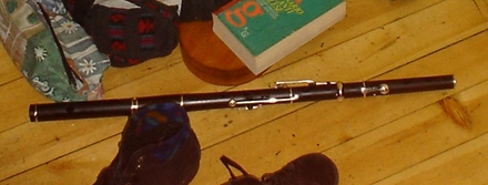 Irish (wooden) flute on the floor.